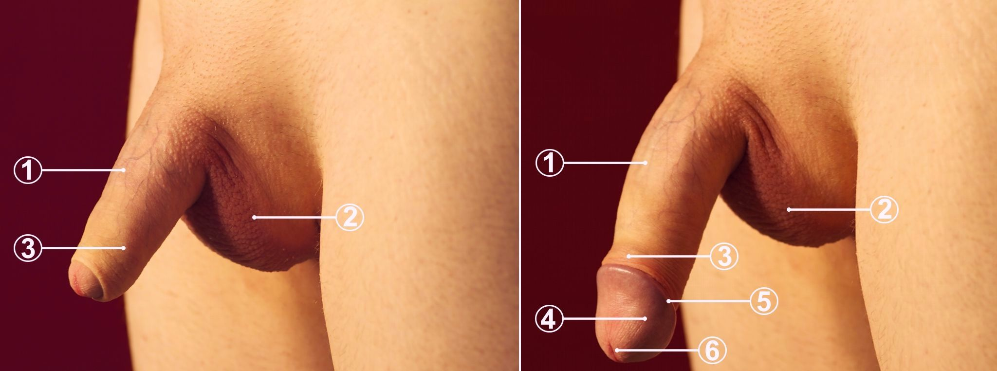 Male human external genitalia